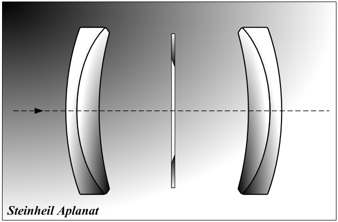 Steinheil Aplanat